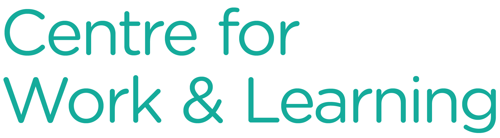 This is the official Centre for Work & Learning Logo under the Institute for Adult Learning Singapore (IAL).